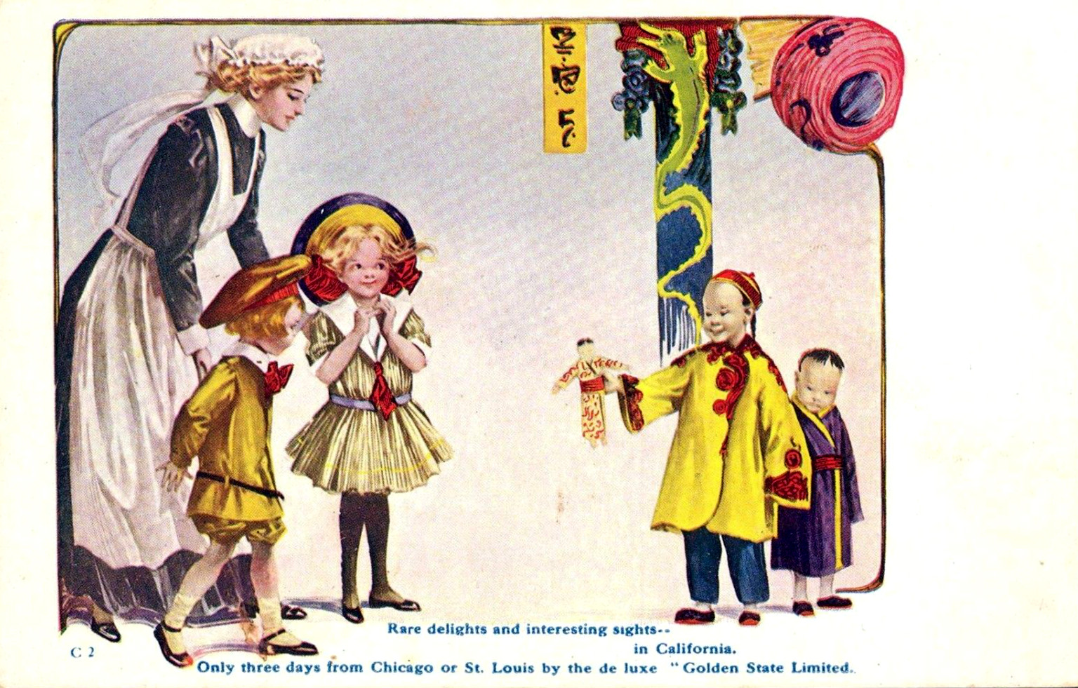 Postcard ad for the Rock Island train "Golden State Limited", which traveled from Chicago and St. Louis to California.